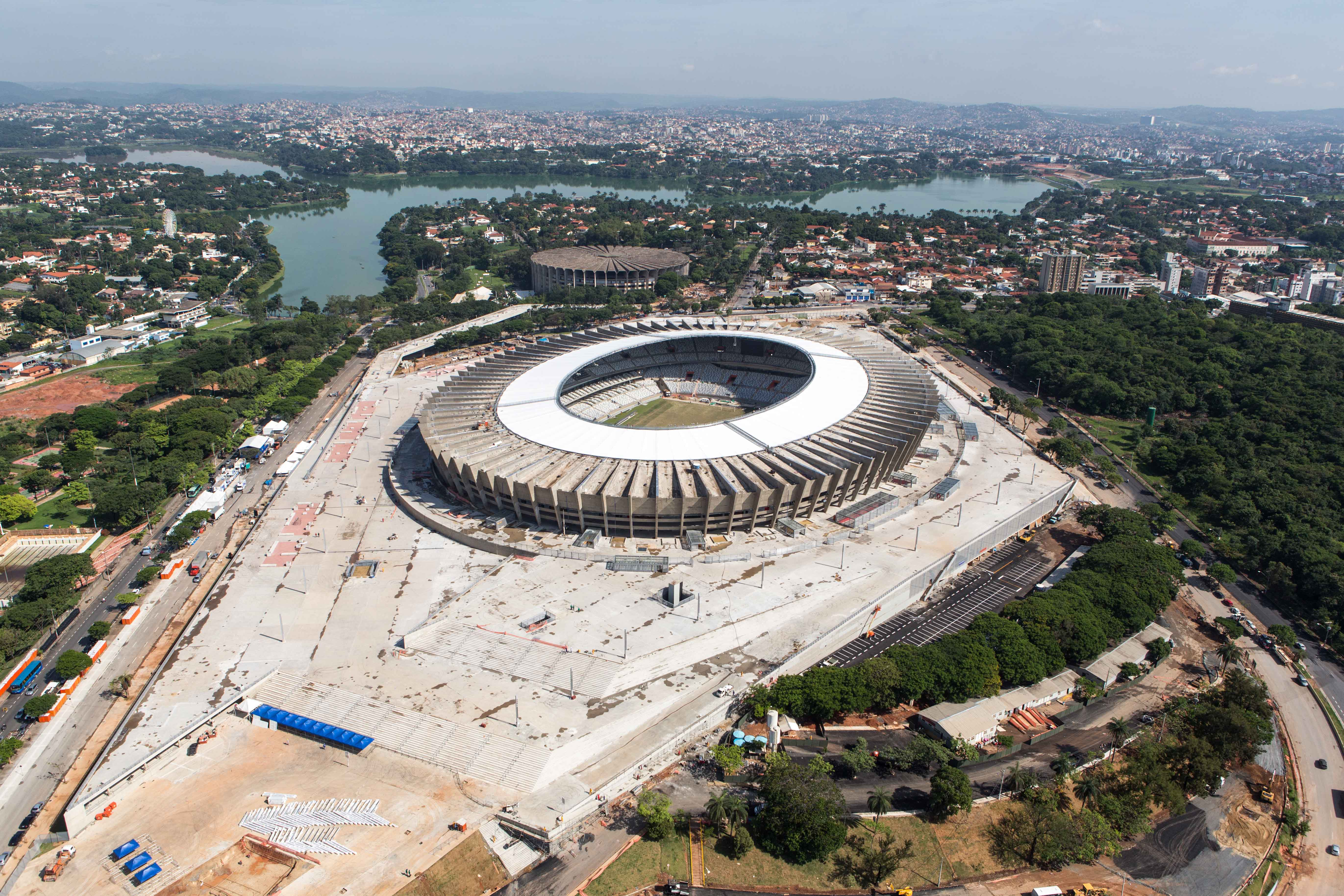 Belo Horizonte_MG. 12 de dezembro de 2012. FAQUINI Sobre voo por BH. Foto: RODRIGO LIMA / NITRO.